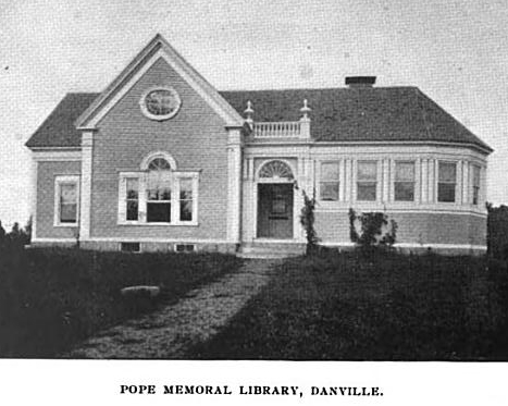 Library in Vermont